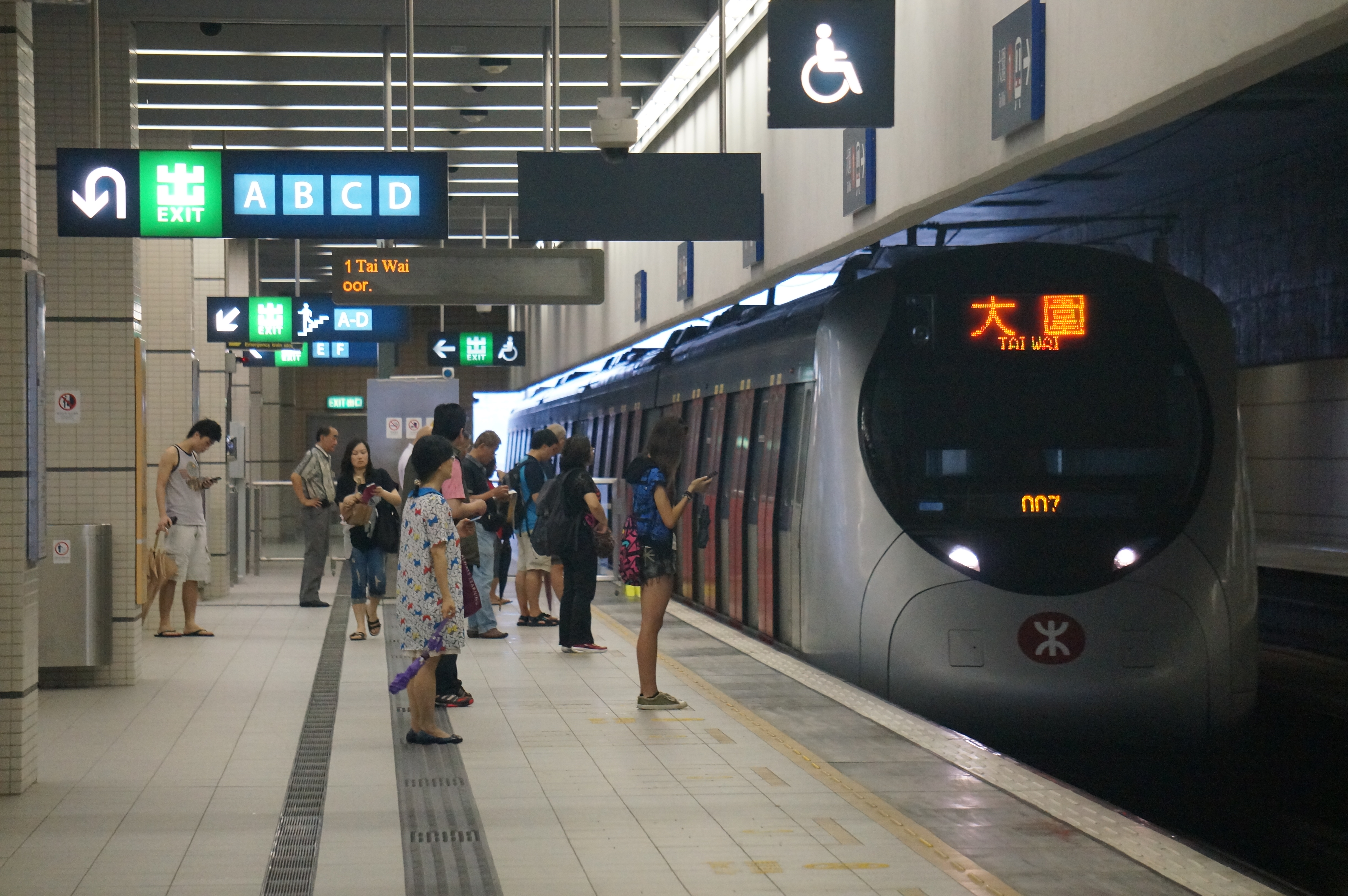 An MTR SP1950 EMU arriving at Platform 1, Che Kung Temple Station.中文（香港）: SP1950列車抵達車公廟站1號月台